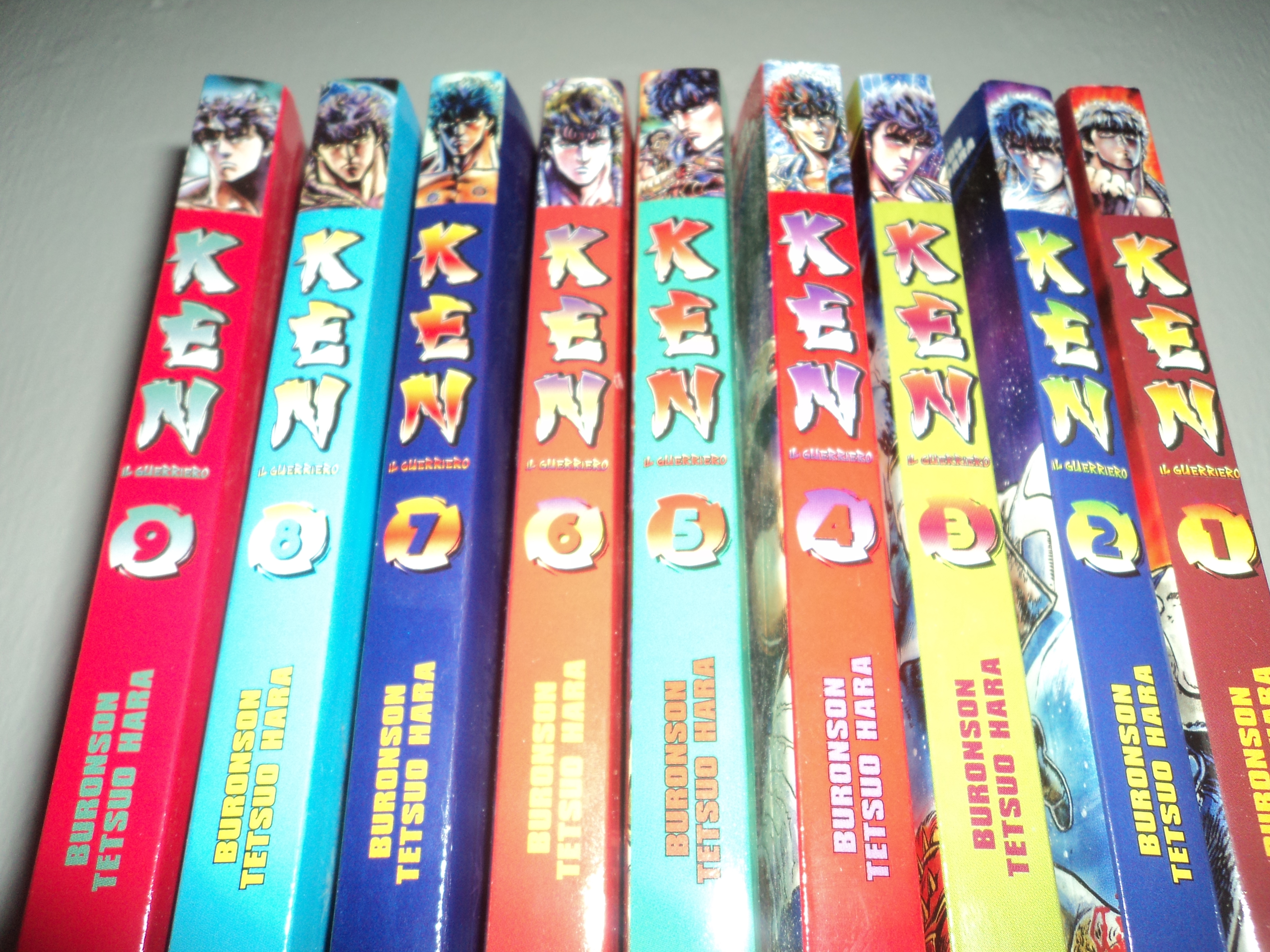 Manga Kenshiro